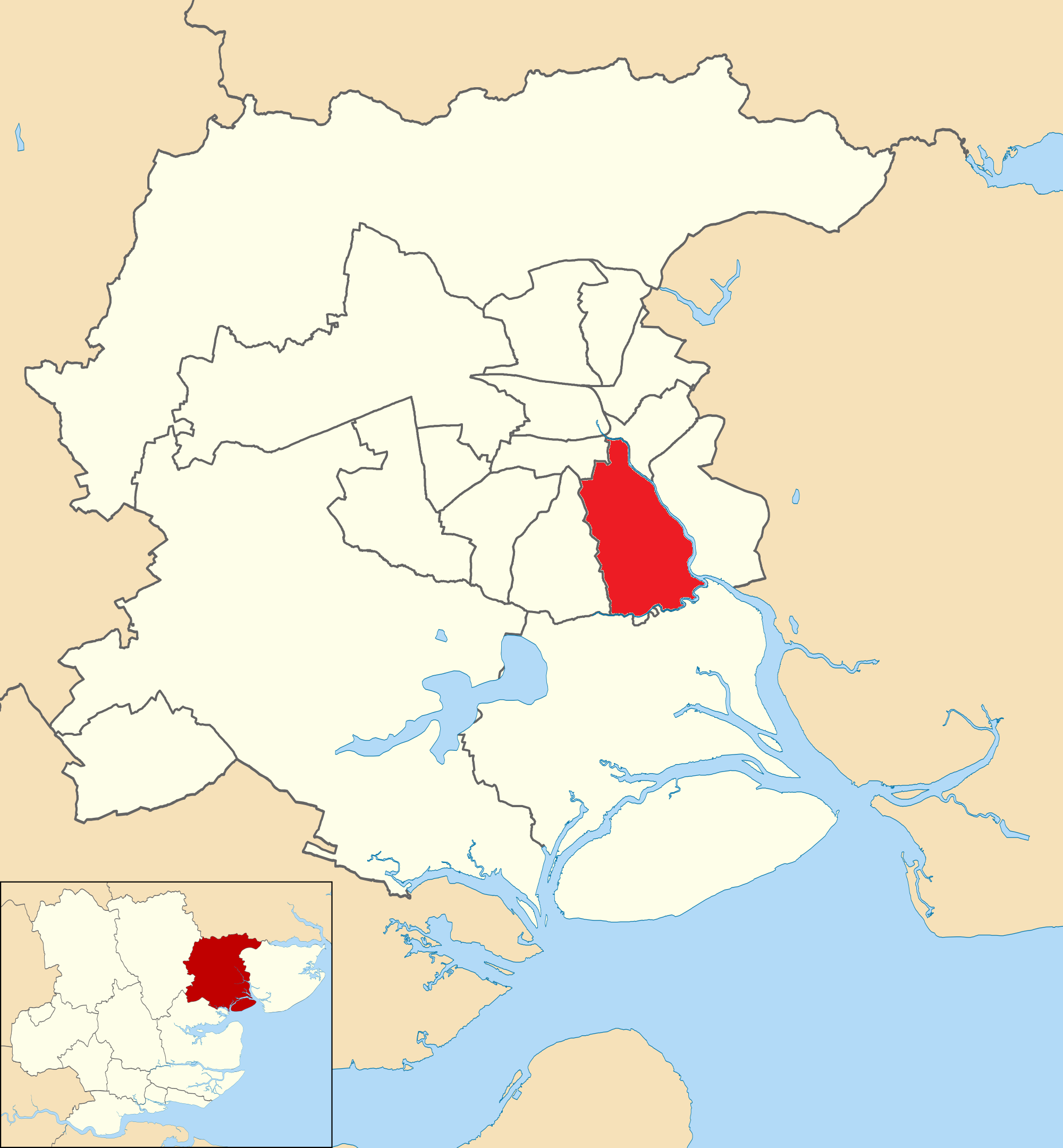 Old Heath & The Hythe ward highlighted within Colchester Borough